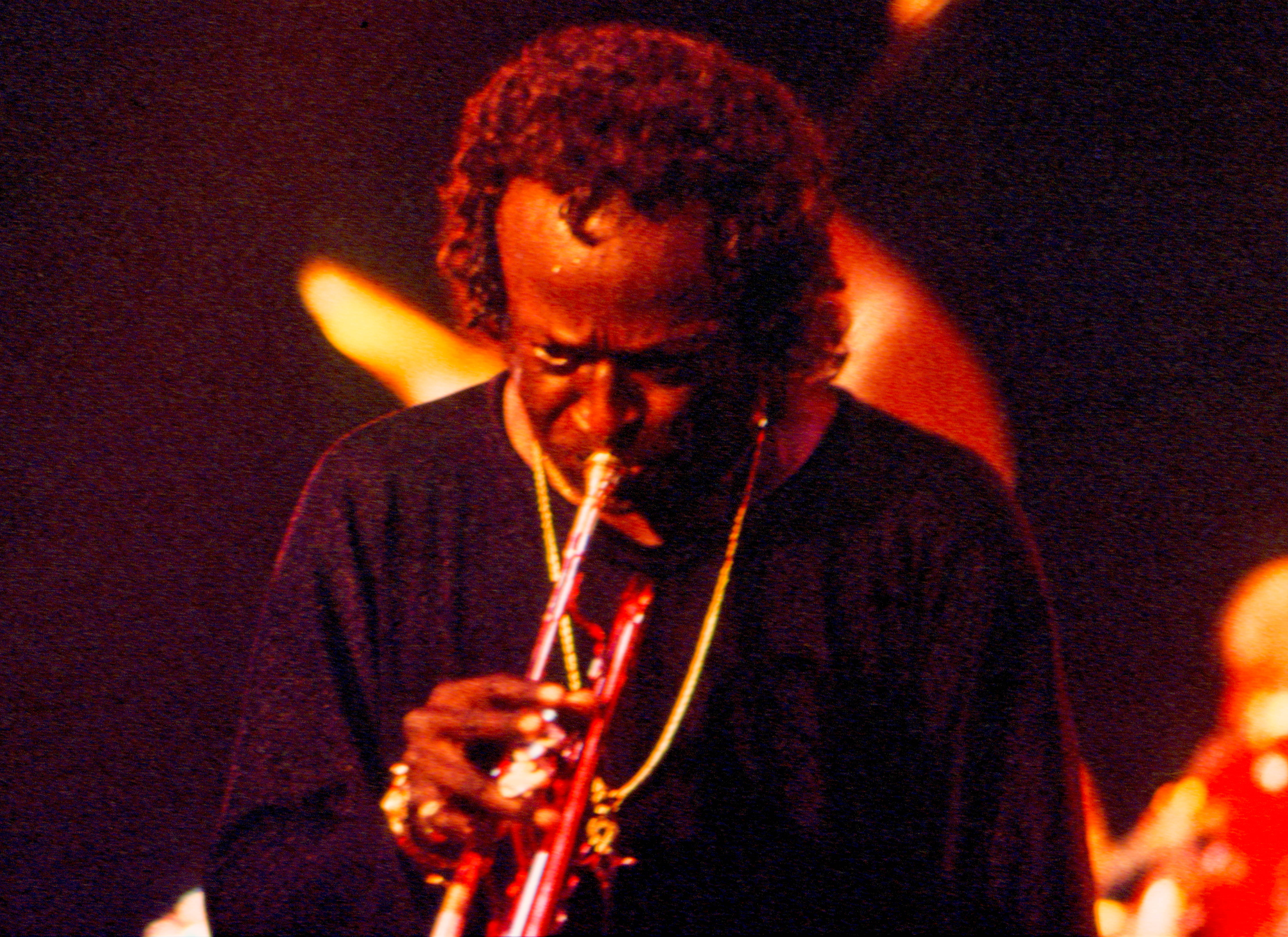 Author: I found in an old box some of my past work of 20 years ago. I made a large serie of slides during the North Sea Jazz Festival of some well known artists. I will try to get a bit of the quality of the original Kodak EES 800/1600 5020 in the scans. The photo's of Miles Dewey Davis III (May 26, 1926 – September 28, 1991) are made during his last concert in the Netherlands at the North Sea Jazz Festival.